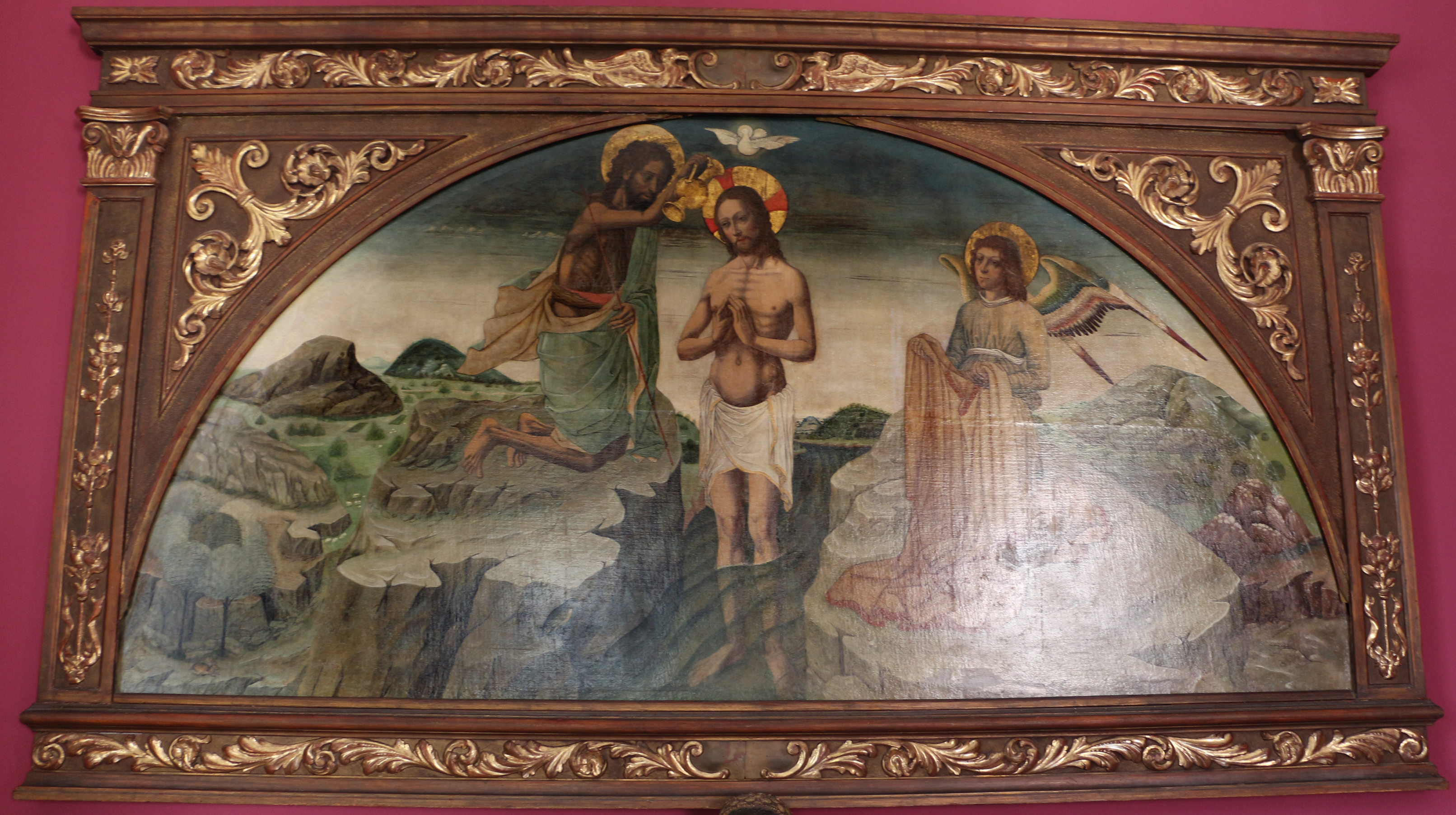 Rector's palace